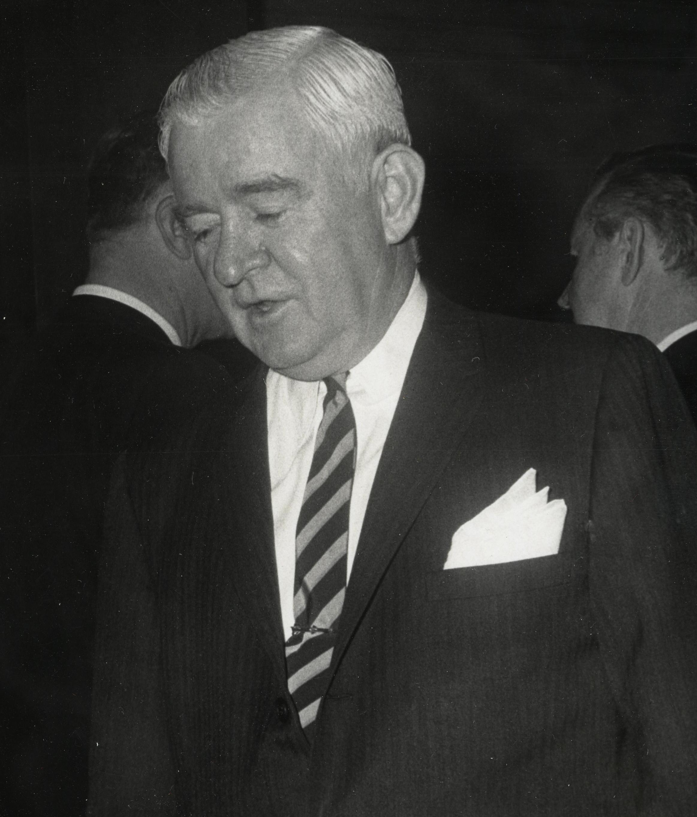 Title: Kaye Wickre of the U.S. Conference of Mayor's staff and Mayor Joseph M. Barr of Pittsburgh greet Mayor John F. Collins at the conference's Congressional Reception January 21 in the Mayflower Hotel, Washington Creator: United States Conference of Mayors Date: 1961 January 21 Source: Mayor John F. Collins records, Collection #0244.001 File name: 244001_0852 Rights: Rights status not evaluated Citation: Mayor John F. Collins records, Collection #0244.001, City of Boston Archives, Boston